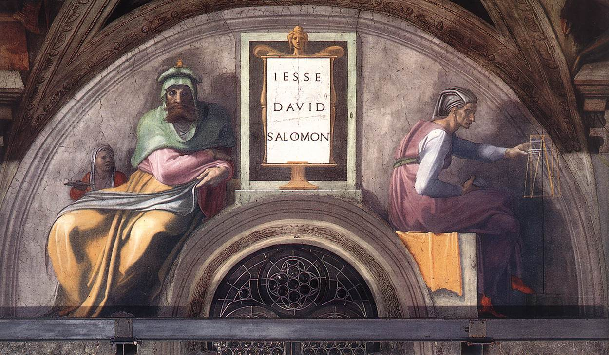 fresco painted by Michelangelo at the Sistine Chapel in the Vatican between 1508 to 1512